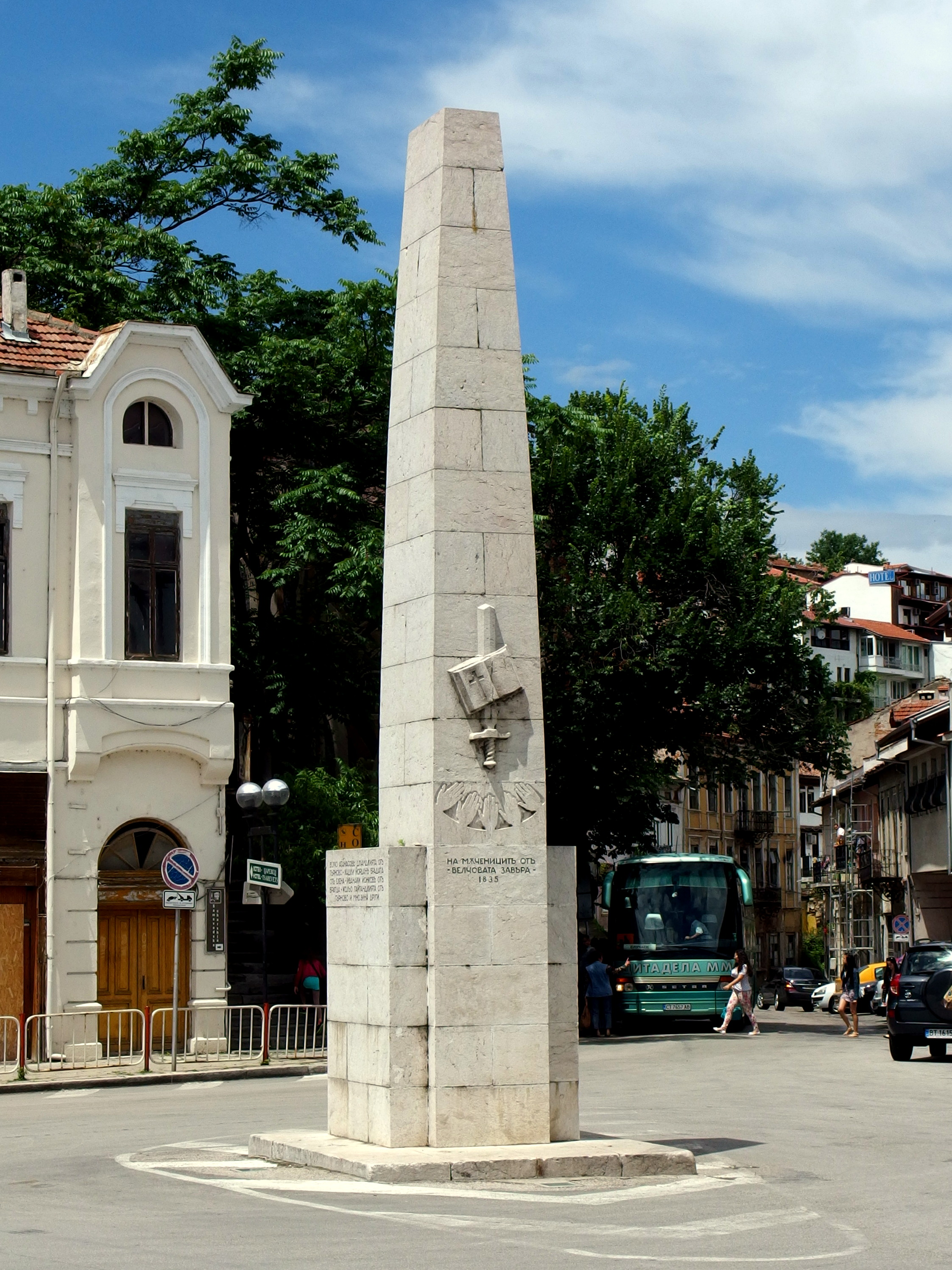 2014-06-21 in Veliko Tarnovo.